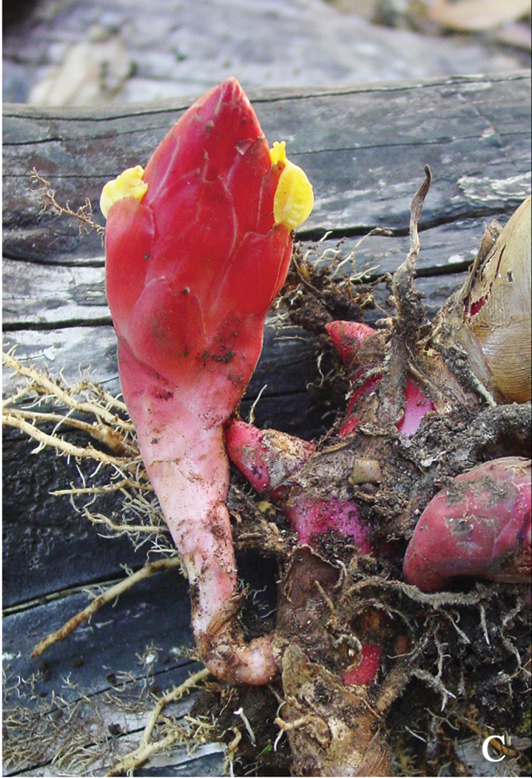 Amomum nilgiricum, inflorescence